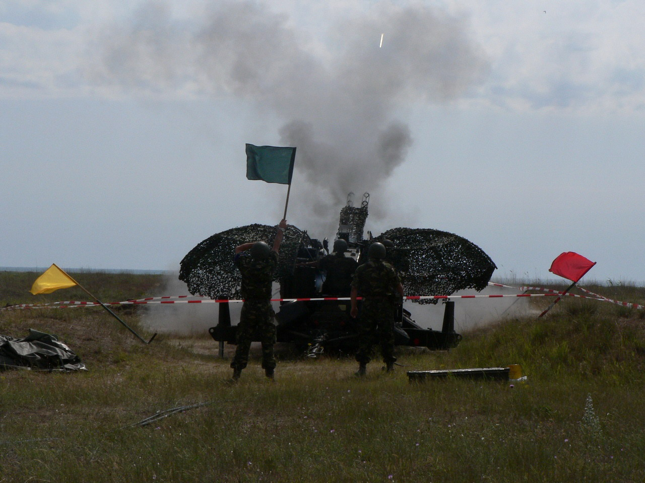 Romanian soldiers firing an Oerlikon GDF-003 twin cannon during "CARPATINA 07" military exercise at Babadag firing range.